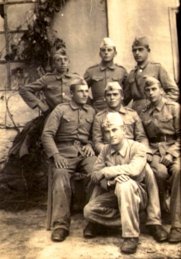 Croatian partisans